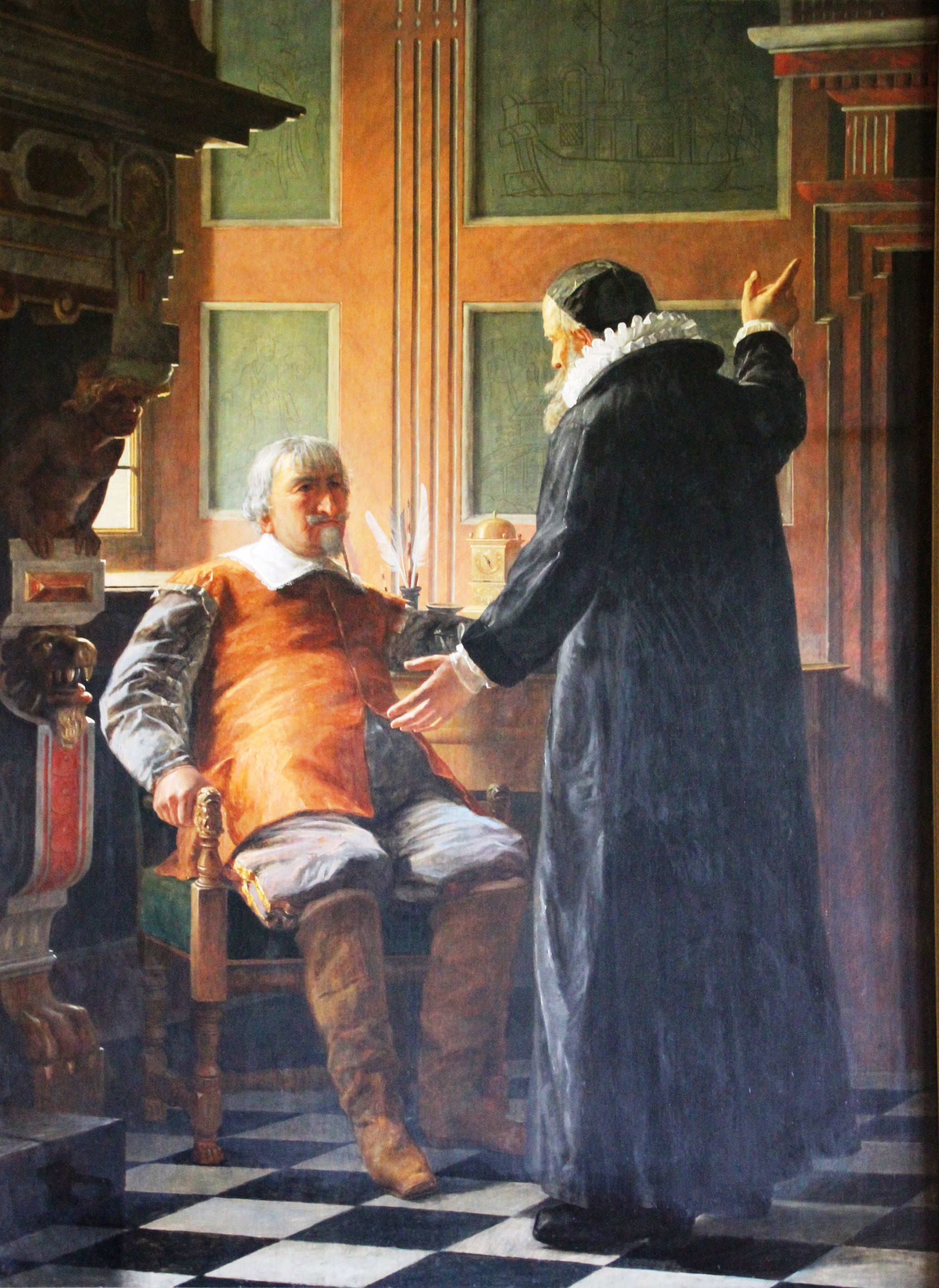 The danish painter lived from 1849 to 1906. This painting of the priest Ole Vind preaching to king Christian IV of Denmark, is displayed at the Frederiksbord Slot.